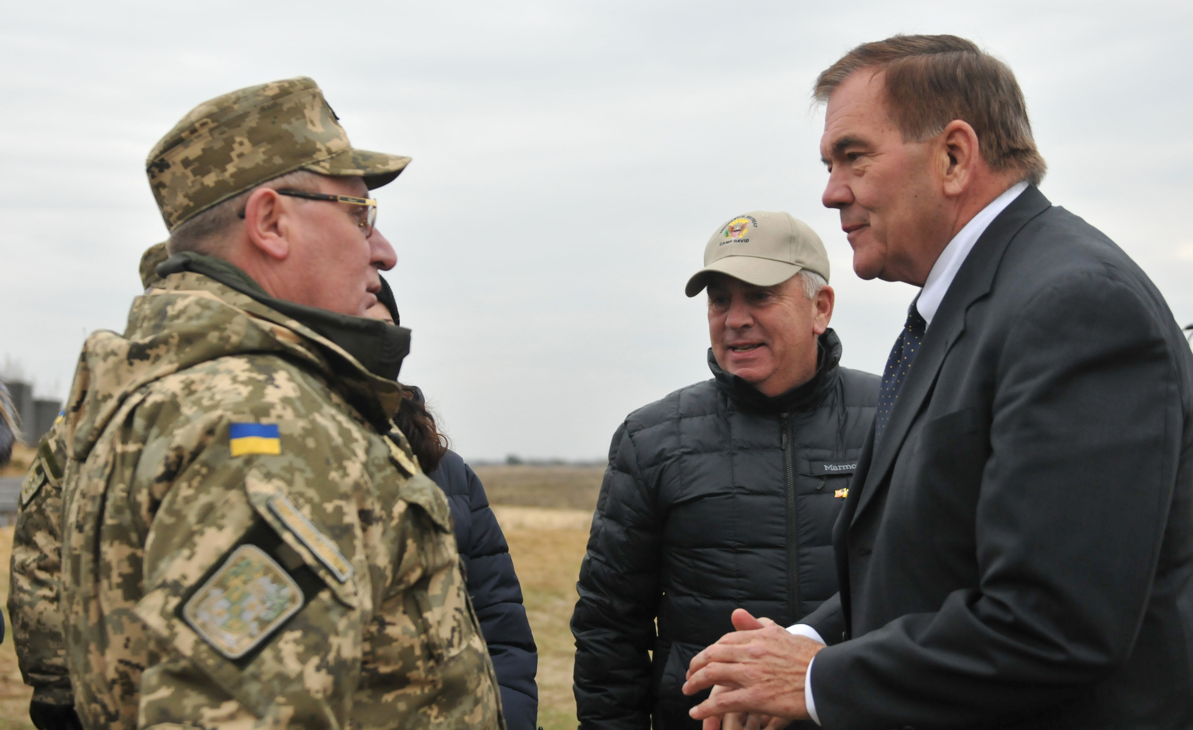 YAVORIV, Ukraine— Tom Ridge (right), former United States Secretary of Homeland Security speaks with Lt. Gen. Pavlo Tkachuk, commander of Ukraine's Land Forces Academy and Army retired General John Abizaid (middle), advisor to Ukraine's Defense Minister, Nov. 11, during a tour of the ranges at the International Peacekeeping and Security Center. The Soldiers at the IPSC are part of the Joint Multinational Training Group-Ukraine and the mission is to build a sustainable, enduring training capacity and capability within the Ukrainian Armed Forces. (Photo by Staff Sgt. Elizabeth Tarr)